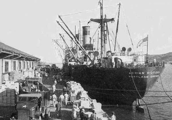 A 60-ton crane at Pusan harbor, 1950